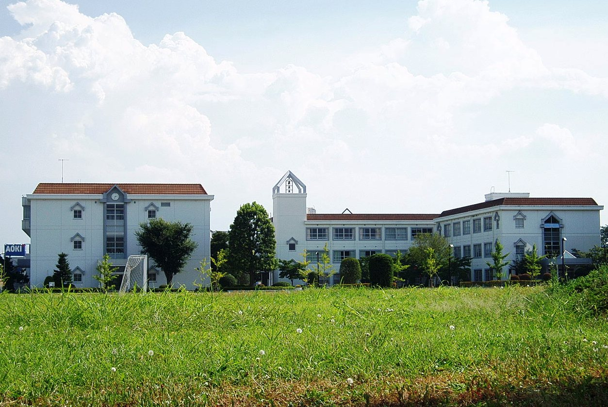 Sano College, viewed from the north. Located in Sano, Tochigi, Japan.